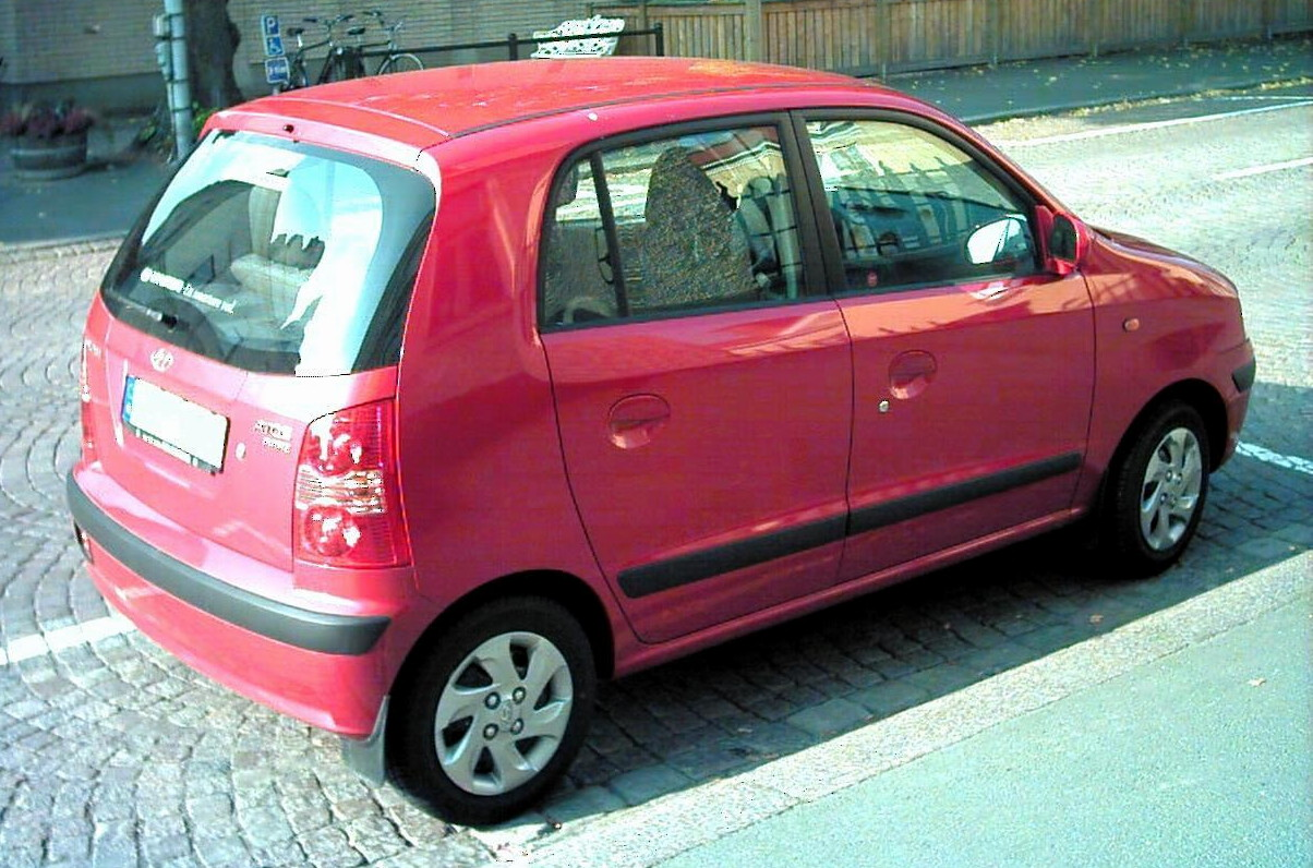 Hyundai Atos Prime (Amica) 2004. Photo taken by me 26 Sept 2005.